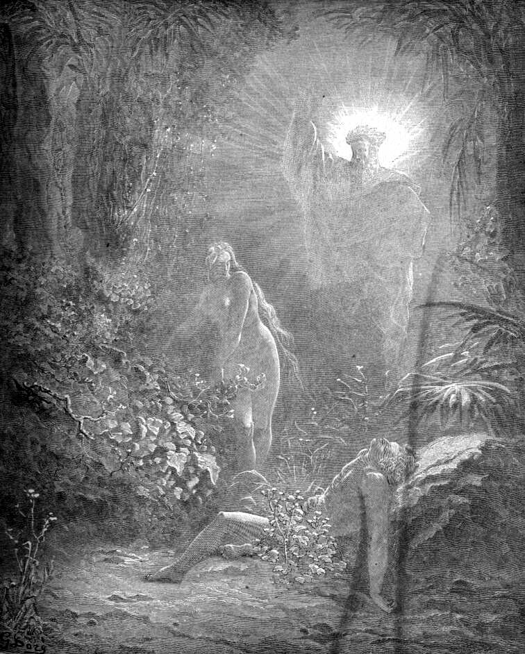 Doré's illustration entitled 'The Creation of Eve.'